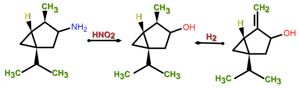 Thujanol synthesis from thujylamine and sabinol